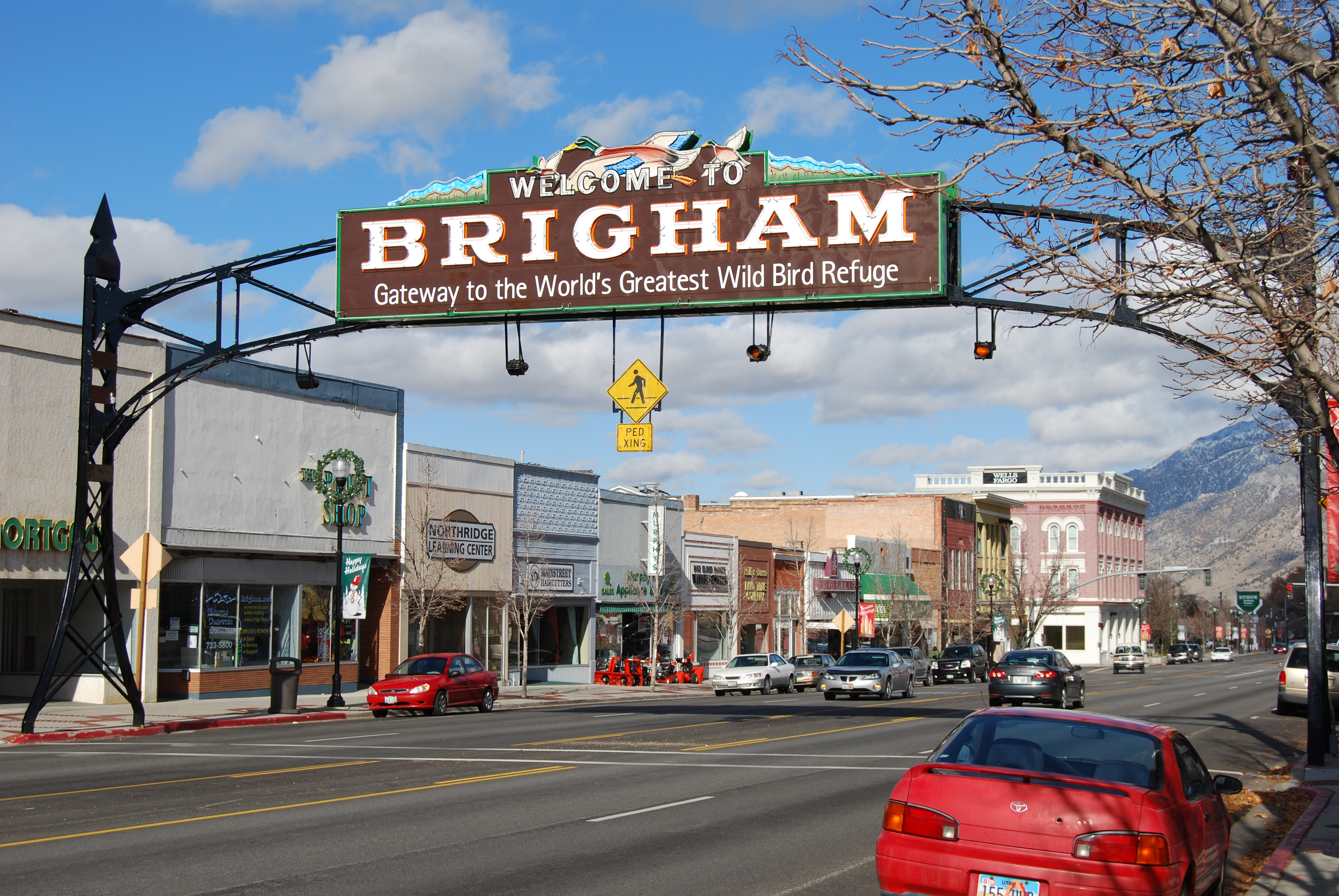 Archway welcoming visitors to Brigham City